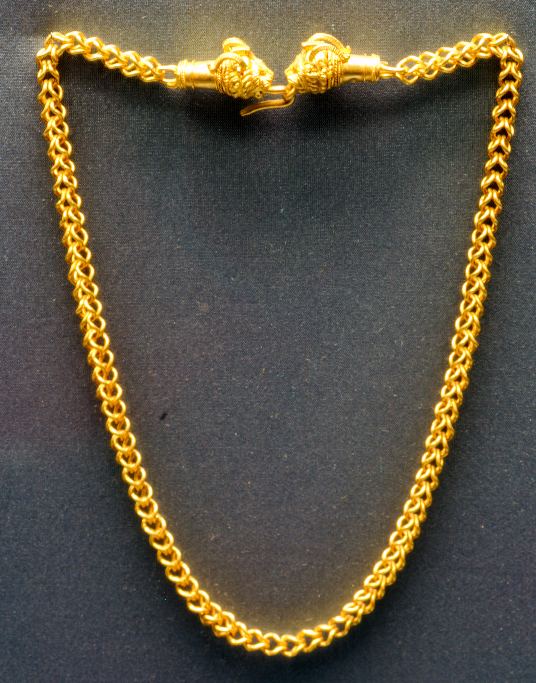 360 BC